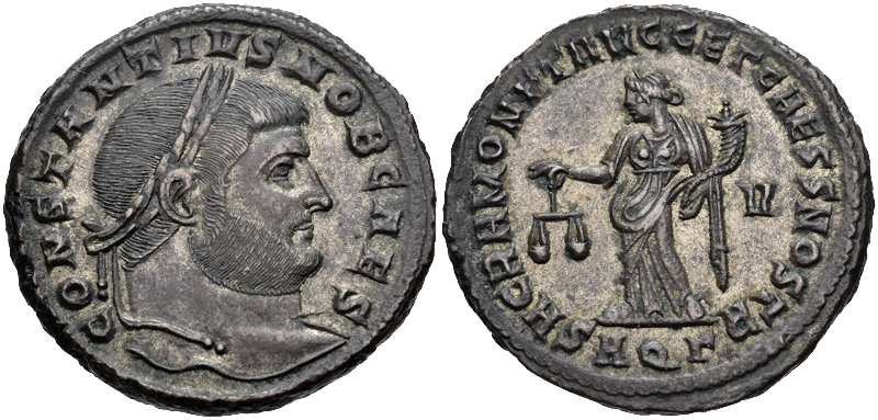 Constantius I. As Caesar, AD 293-305. Æ Follis (27mm, 11.17 g, 6h). Aquileia mint, 3rd officina. Struck AD 301. CONSTANTIUS NOB(ilis) CAES(ar), Laureate head right SACR MONET AVGG ET CAESS NOSTR, Moneta standing left, holding scales and cornucopia; II / AQΓ. RIC VI 32a